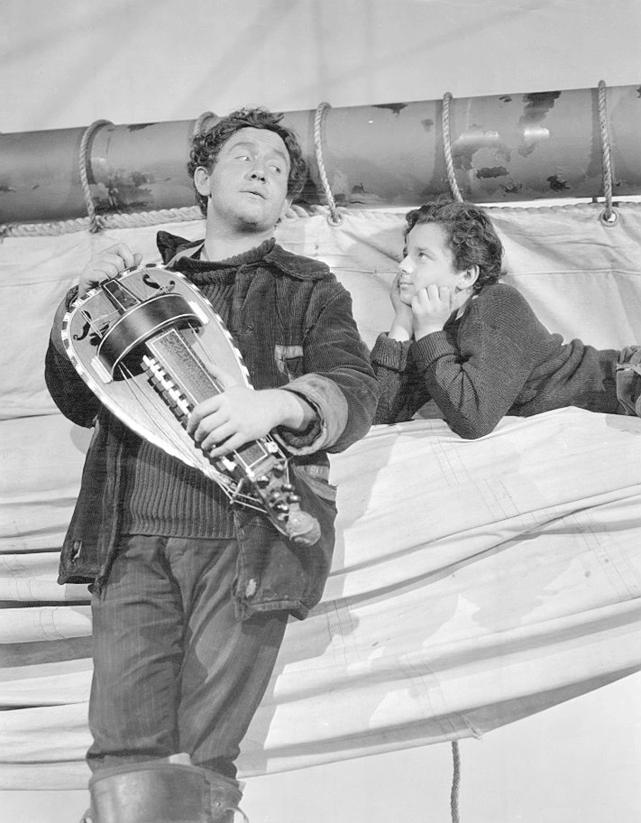 Photo of Spencer Tracy and Freddie Bartholomew from the 1937 film Captains Courageous.